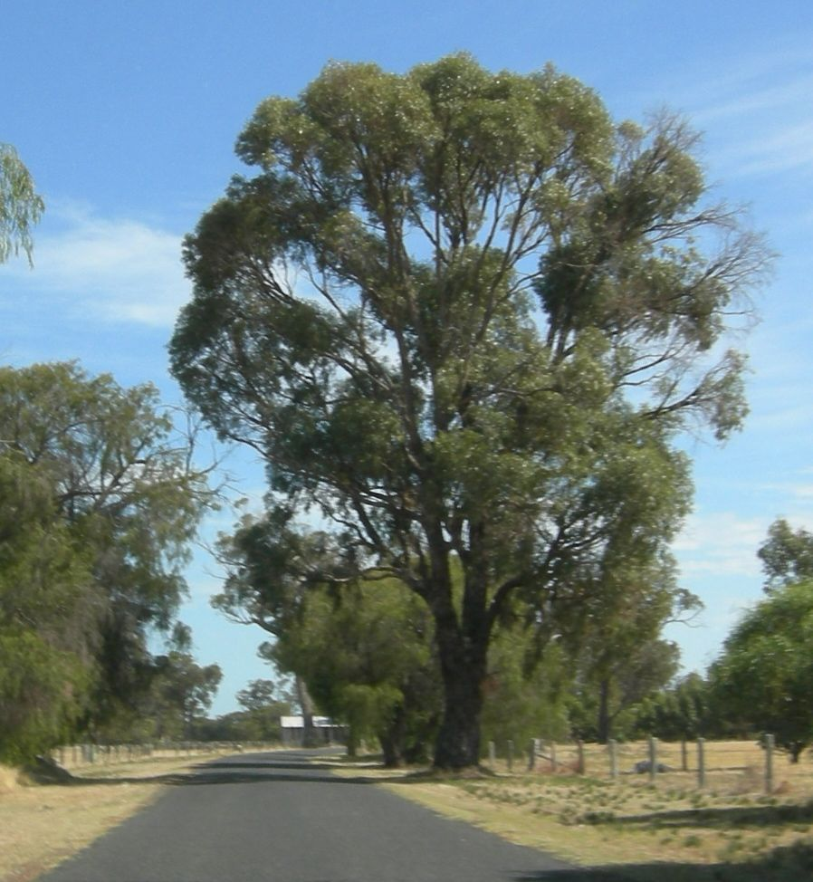 Tuart Tree (Eucalyptus gomphocephala) near Lake Clifton, Western Australia